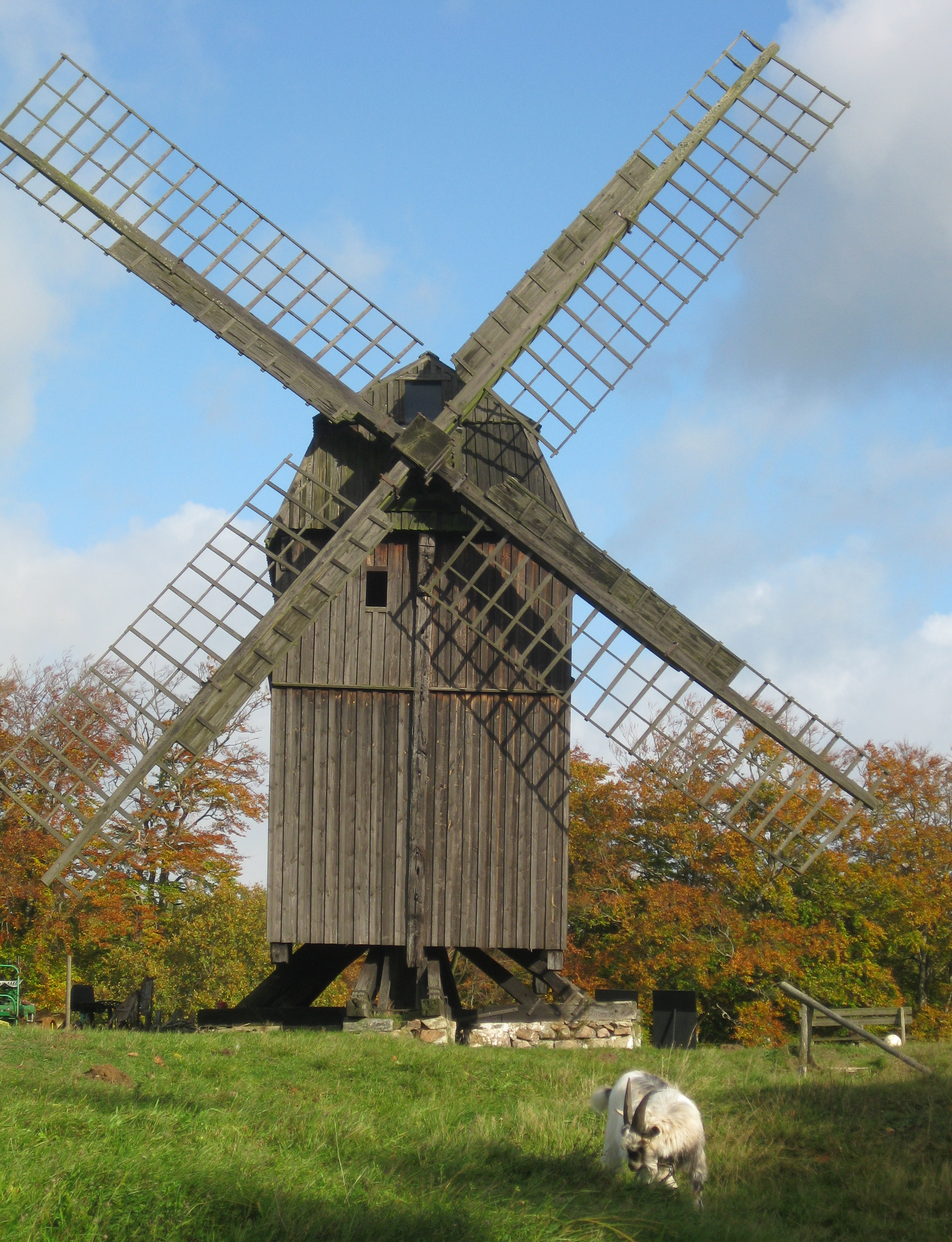 Wind mill at Kulturens Östarp in Skåne, Sweden.